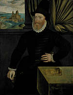 James Douglas, 4th Earl of Morton, Regent of Scotland (aka Regent Morton)